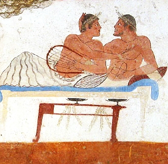 An eromenos with his erastes involved in a pederastyc love scene from a symposium. It's a detail from the frescoes belonging to the north wall of the Tomb of the Diver in Paestum, now at the local National Museum. The frescoes are painted in true fresco on limestone slabs and are dated about 475-470 BC